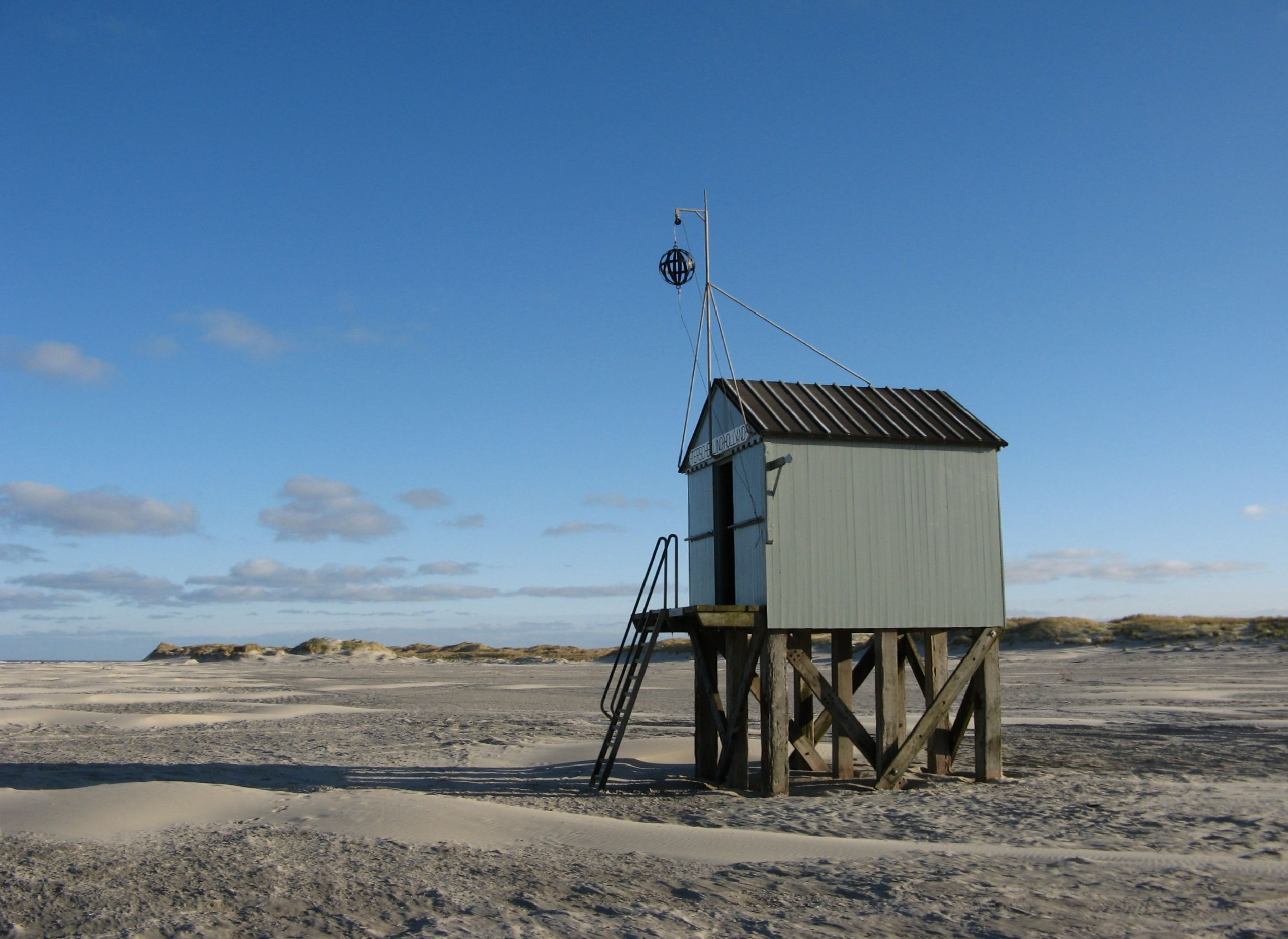 Emergency shelter for shipwreck victims on Terschelling, locally known as 'Huuske op e hoek'